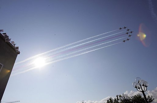 Retrieved from: Fighter jets fly in formation over the NATO Summit at the Istanbul Convention and Exhibition Center in Turkey, Monday, June 28, 2004.